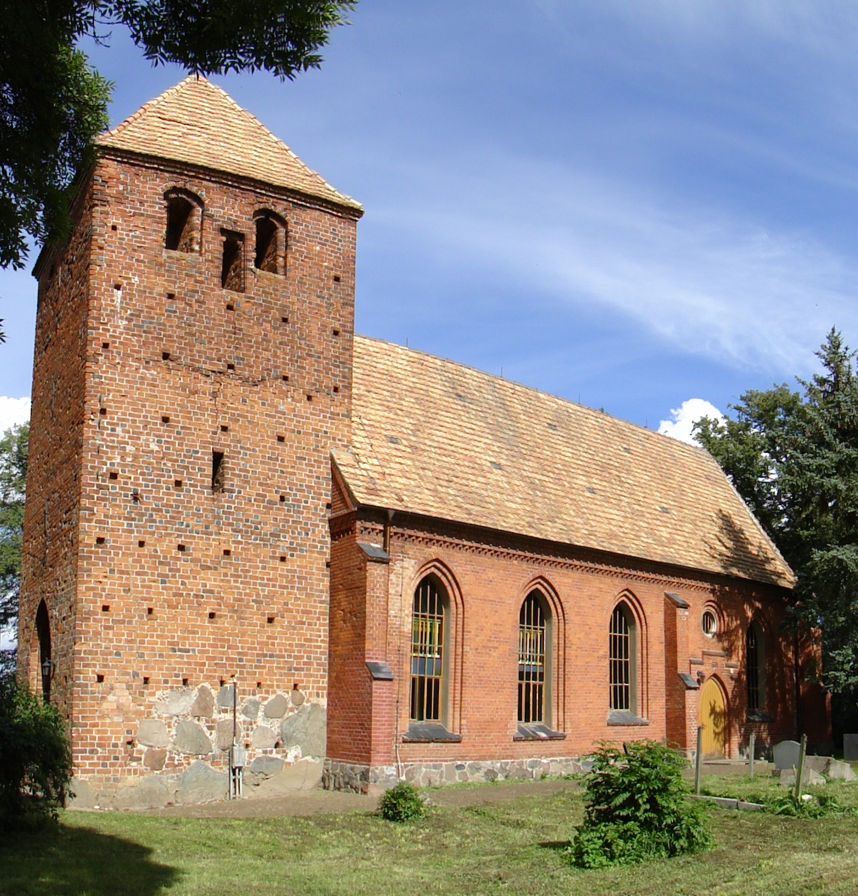 Church in Groß Lukow, district Müritz, Mecklenburg-Vorpommern, Germany